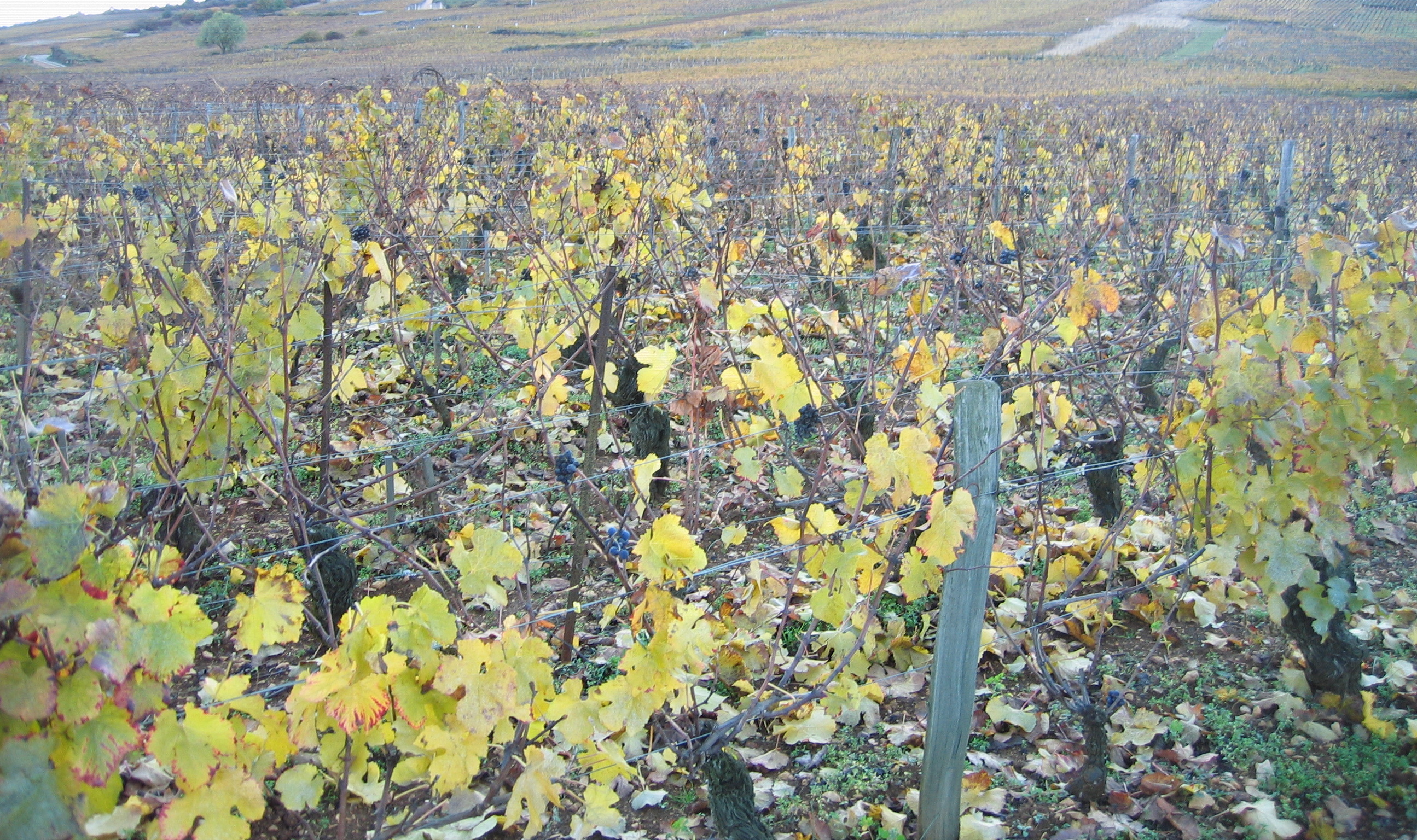 Grand Cru vineyard Richebourg, outside Vosne-Romanée, in autumn